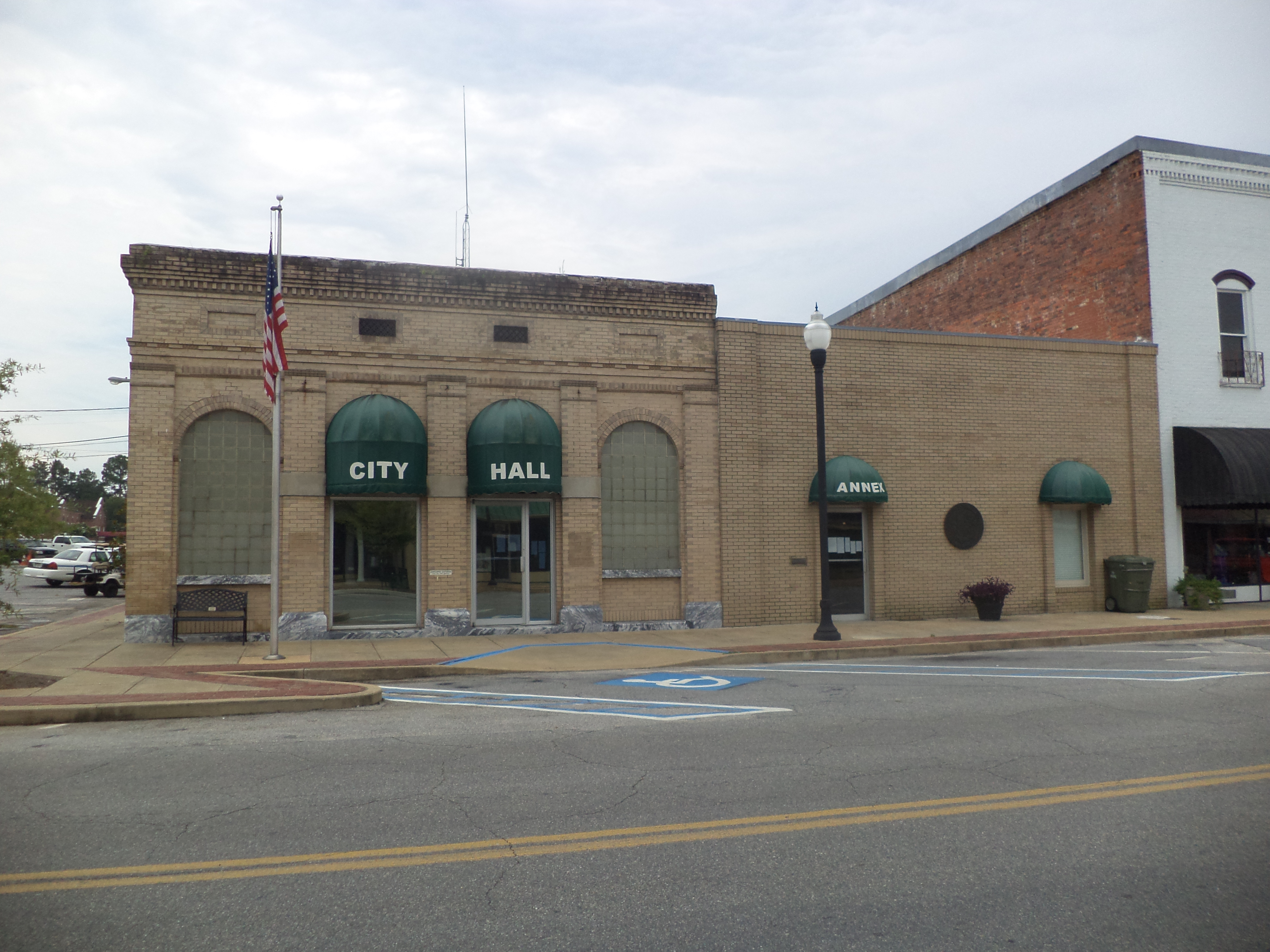 Donalsonville City Hall, 127 E 2nd St, Donalsonville, Seminole County, Georgia